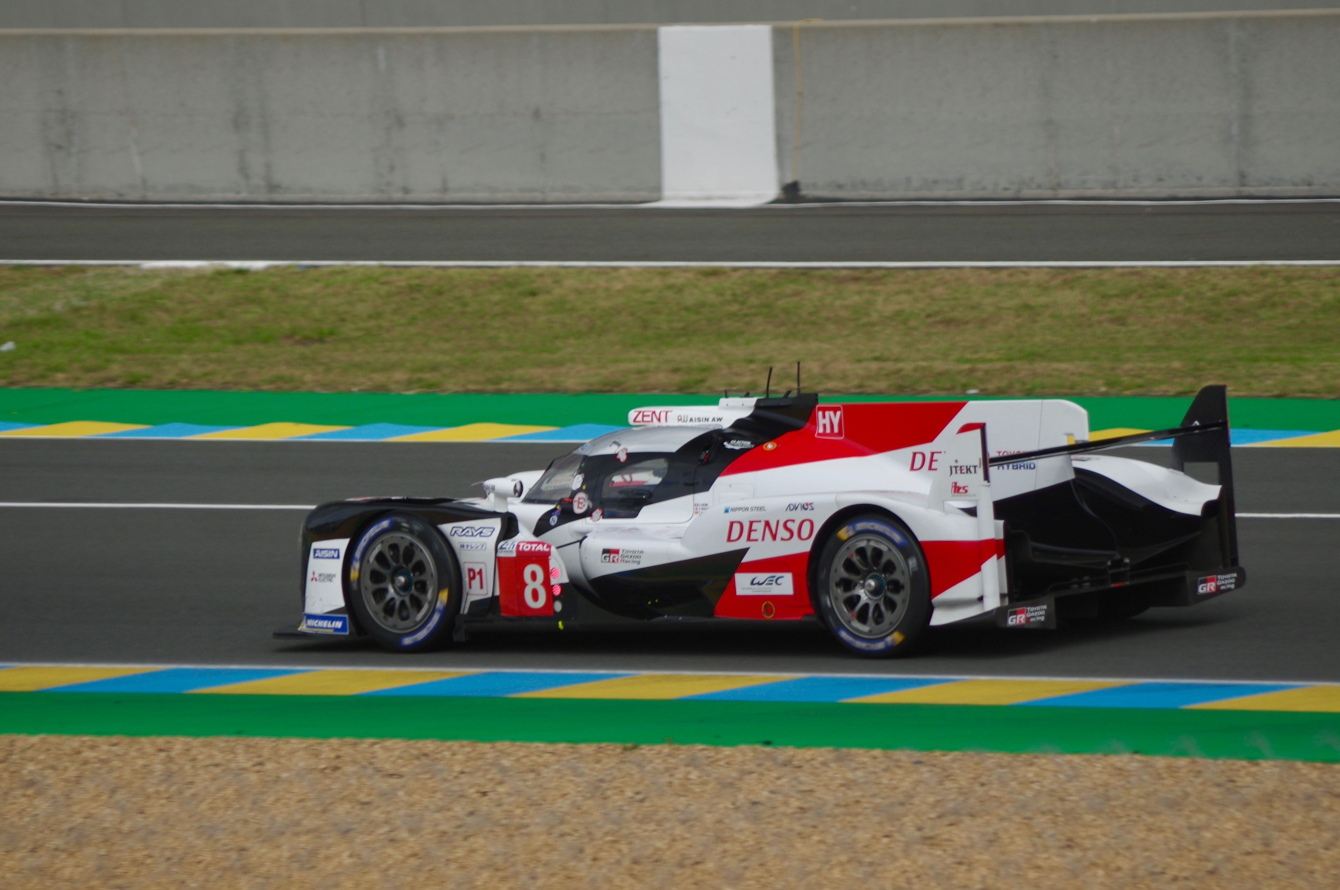 Toyota Gazoo Racing's Toyota TS050 Hybrid No. 8 driven by Fernando Alonso, Sébastien Buemi and Kazuki Nakajima, overall winner of Le Mans 24 Hours 2019